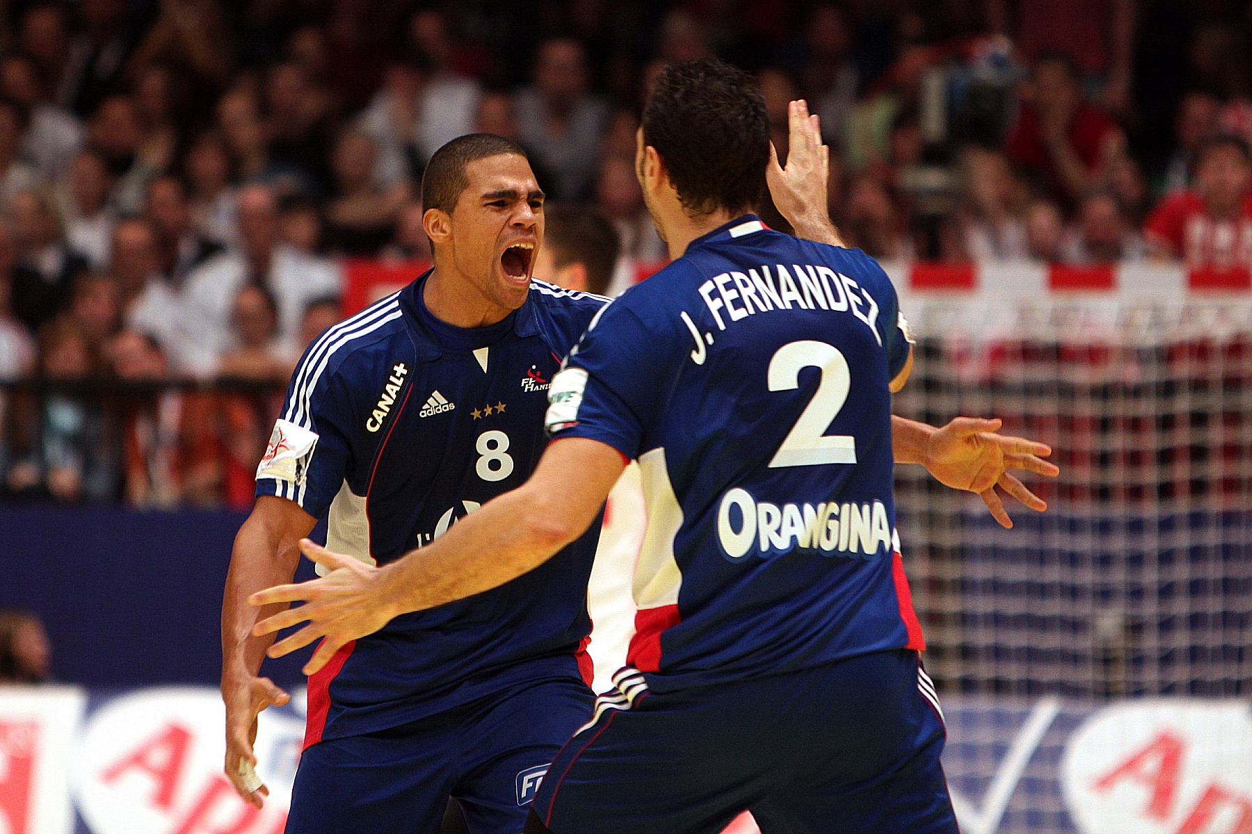 Daniel Narcisse (THW Kiel) is jubilant with Jérôme Fernandez (BM Ciudad Real), France national handball team